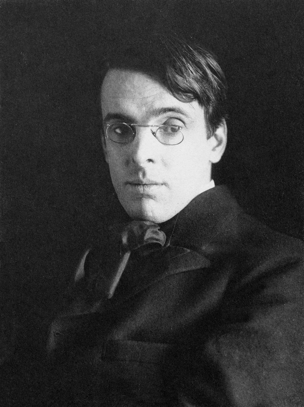 Photographic portrait of William Butler Yeats by Alice Broughton. Platinum print. "ohn Quinn arranged for Yeats to be photographed by Alice Boughton, probably on 22 December 1903. On 7 January 1904, Quinn wrote to her thanking her for two solio prints and two platinum prints, telling her that 'Yeats received the three photographs which you sent him and was charmed by them.' Quinn particularly liked one of Yeats reading a book, which was published in Florence Brooks's article in the New York Herald on 17 January 1904. Another, presumably the present image, was published in the Gaelic American on 5 March 1904." [1]